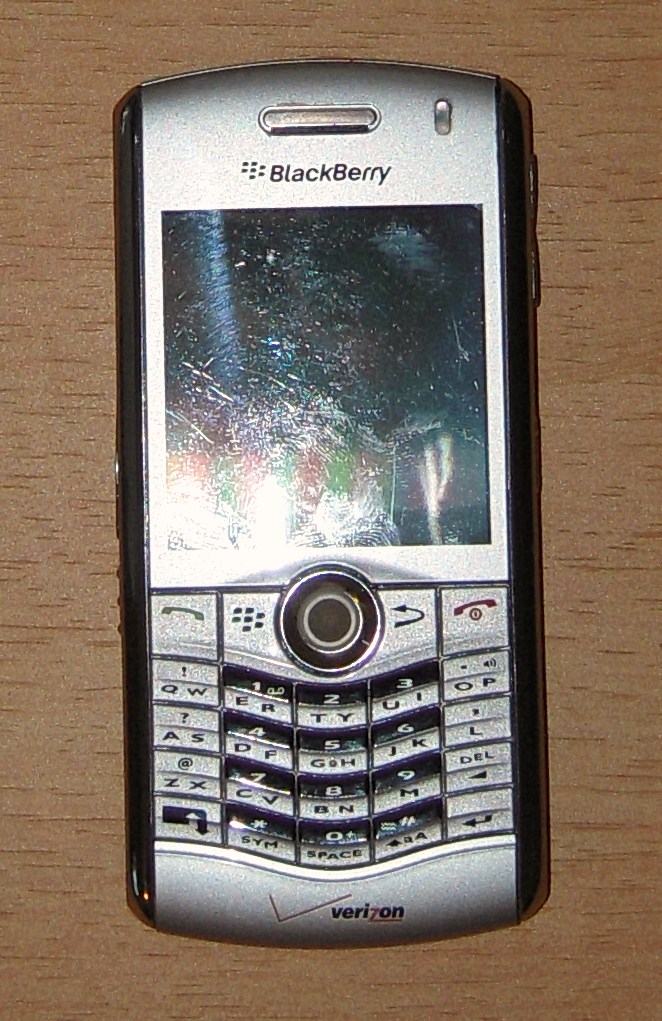 BlackBerry Pearl 8130